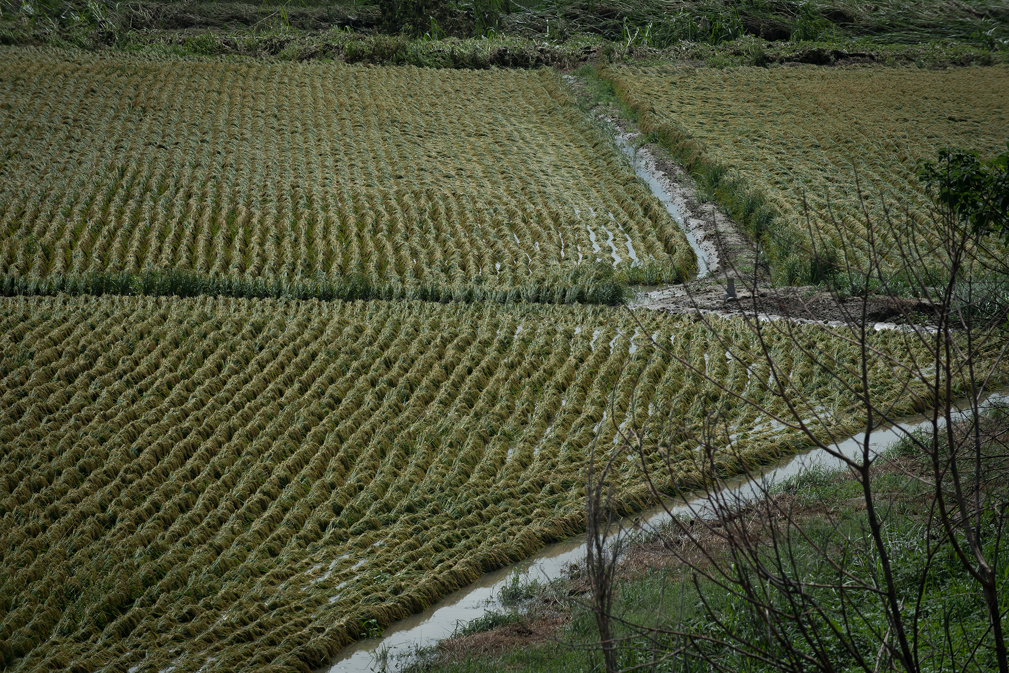 授權方式及範圍：中華民國總統府│政府網站資料開放宣告 Authorization Method & Scope: Office of the President, Republic of China (Taiwan) | Government Website Open Information Announcement